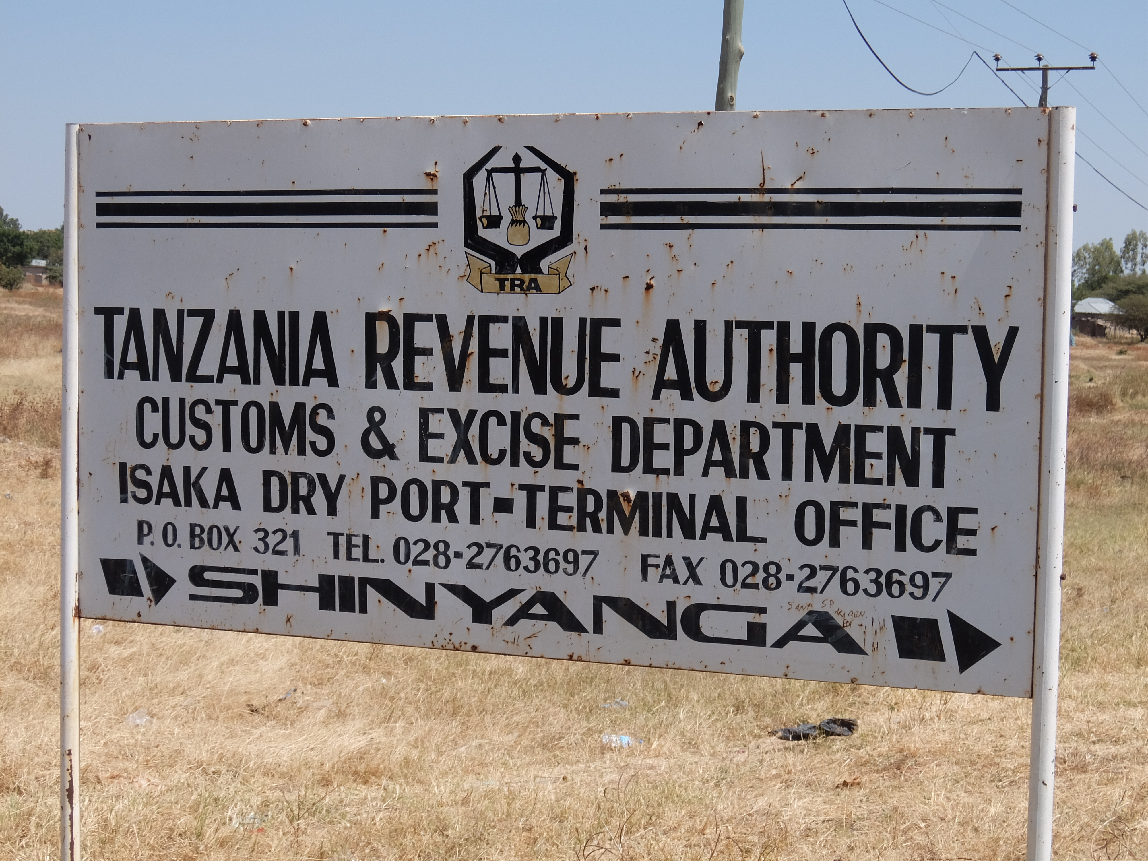 Picture of a sign post, indicating Isaka Dry Port, in Shinyanga Region. The picture was taken at Isaka train station.